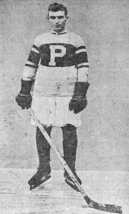 Professional ice hockey player Smokey Harris as a member of the Portland Rosebuds in 1917.